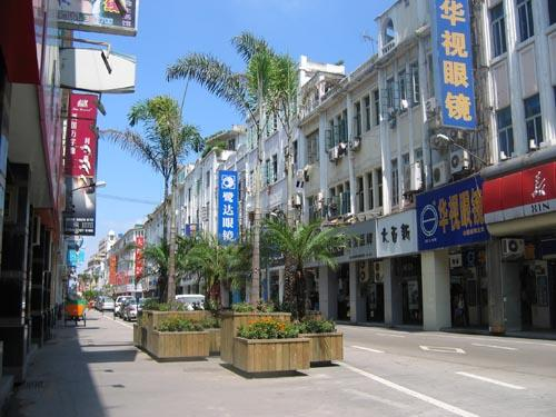 View of Zhongshan Rd. (Ped. Street), Xiamen